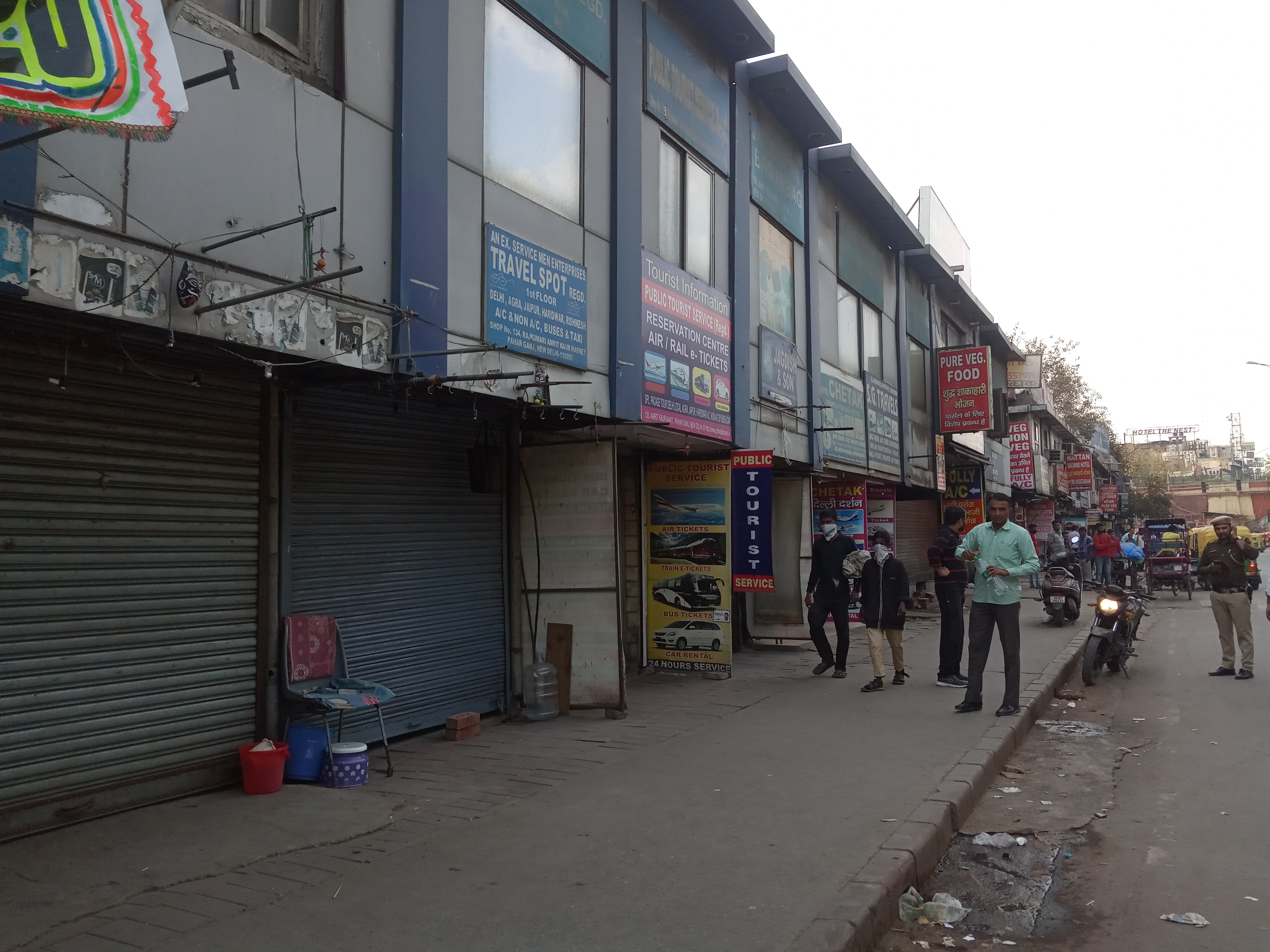 Hotels and shops near New Delhi railway station on 21 March 2020